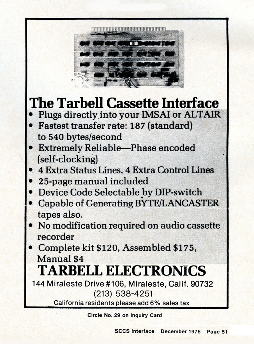 The Tarbell Cassette Interface began production in September 1975 and became the most popular cassette data storage board for the Altair 8800, Imasi 8080 and other S100 bus computers. In 1975 a floppy disk system cost over $1500 so most hobbyist stored data on a standard audio cassette. Don Tarbell was a founder of the Southern California Computer Society and this advertisement is from the club's newsletter, SCCS Interface.